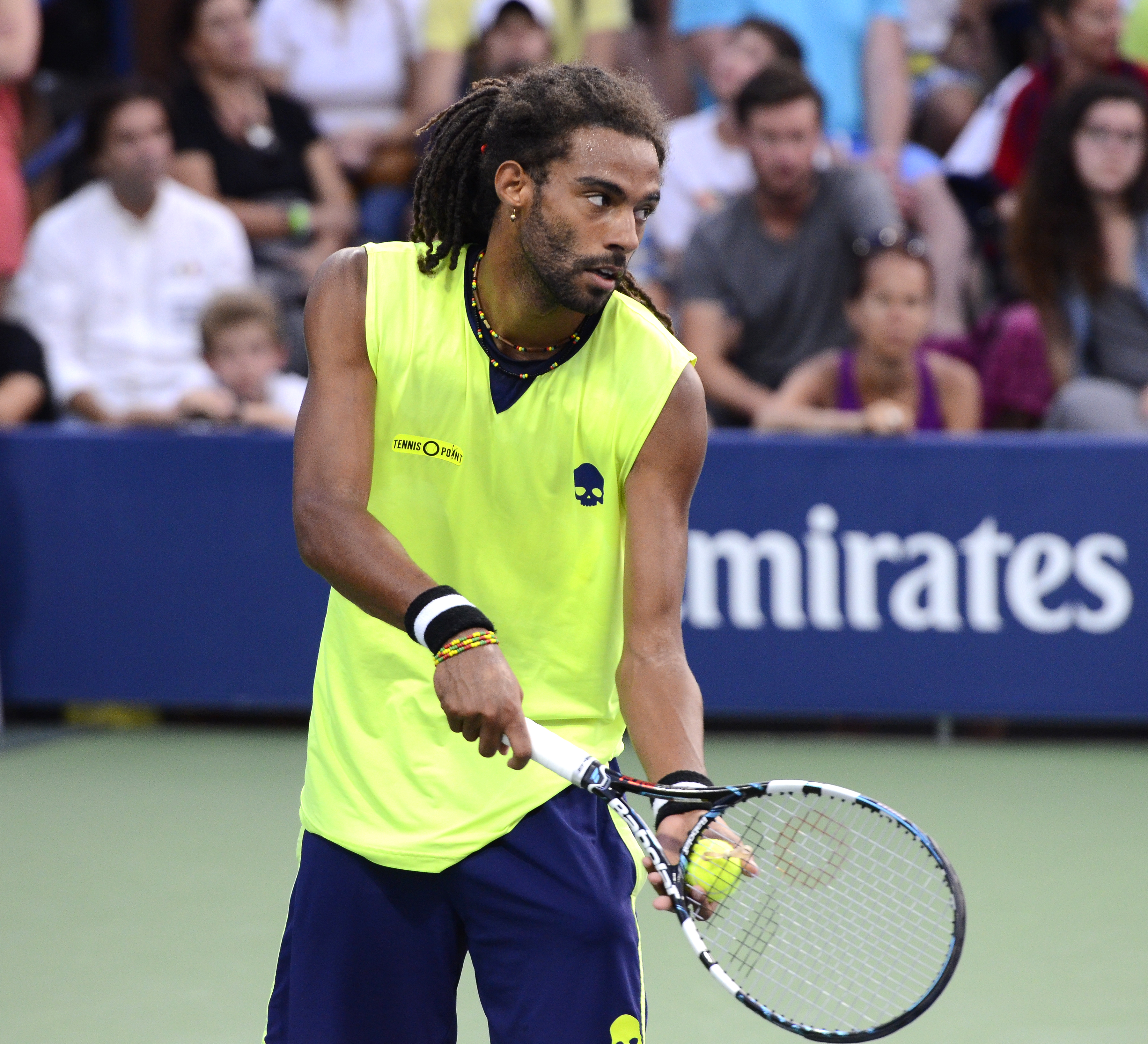 August 26, 2014 Queens, NY Bernard Tomic (AUS) def. Dustin Brown (GER)